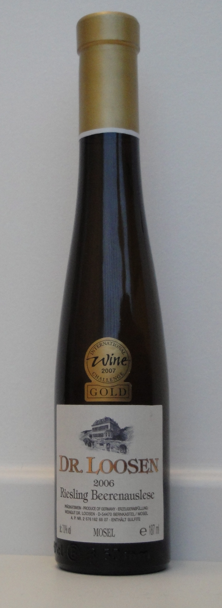 A 187 ml bottle of Riesling Beerenauslese 2006 from Mosel producer Dr. Loosen. The bottle also has a gold medal from the International Wine Challenge 2007.